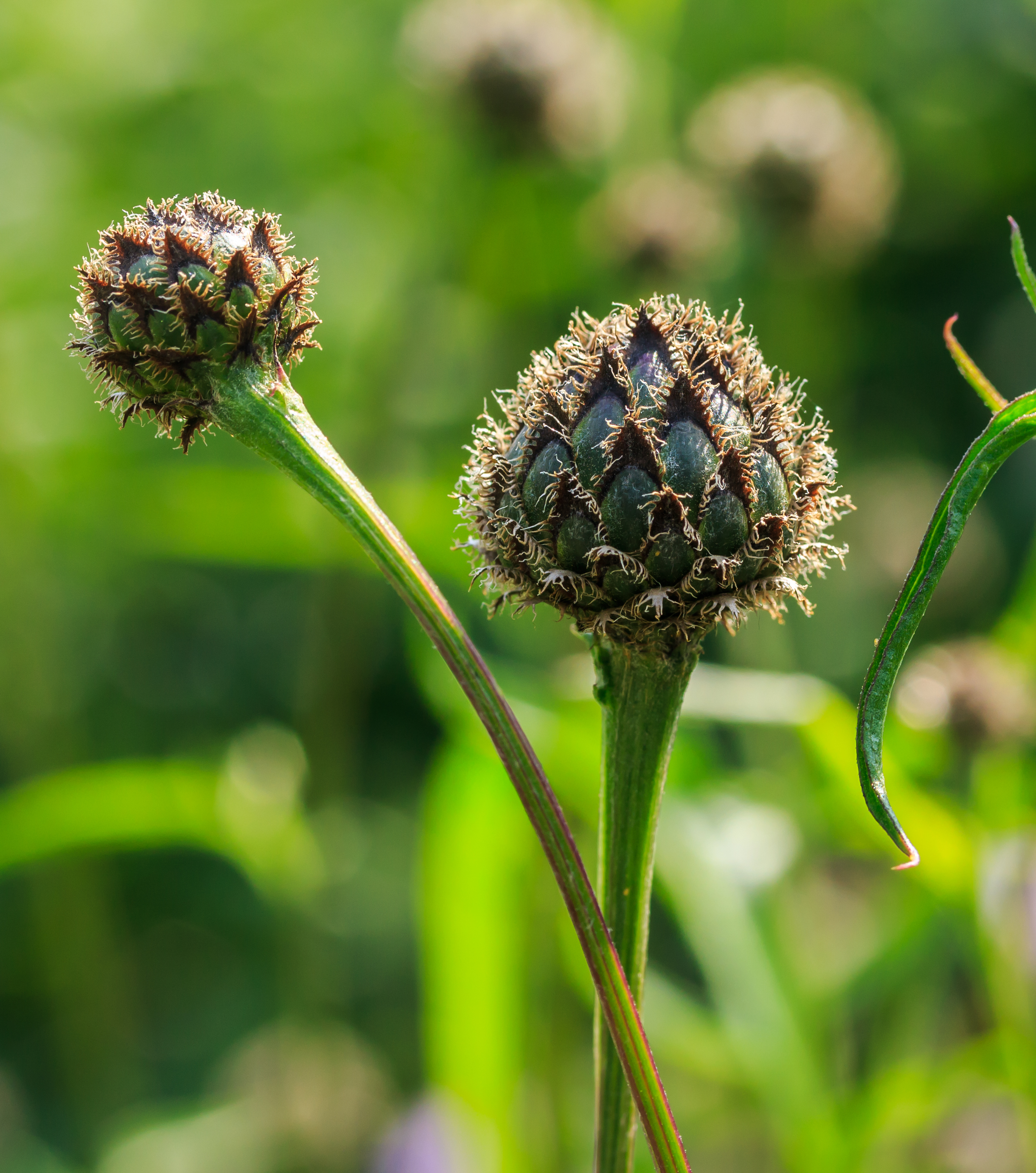 Flower Buds Centaurea dealbata 'Steenbergii'. Location, The Kruidhof in the Netherlands.